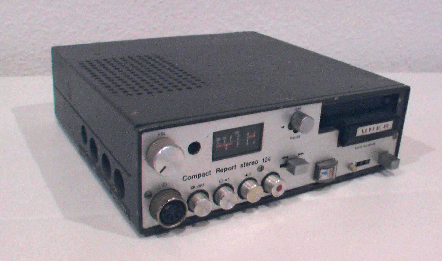 Uher Compact Report Stereo 124 - compact cassette field recorder, with provisions for synchronizing film soundtracks.